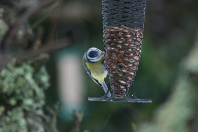 Blue Tit on a peanut feeder Blue Tit (Parus caeruleus) busy in our garden. It is difficult to "capture" these birds as they are always moving.